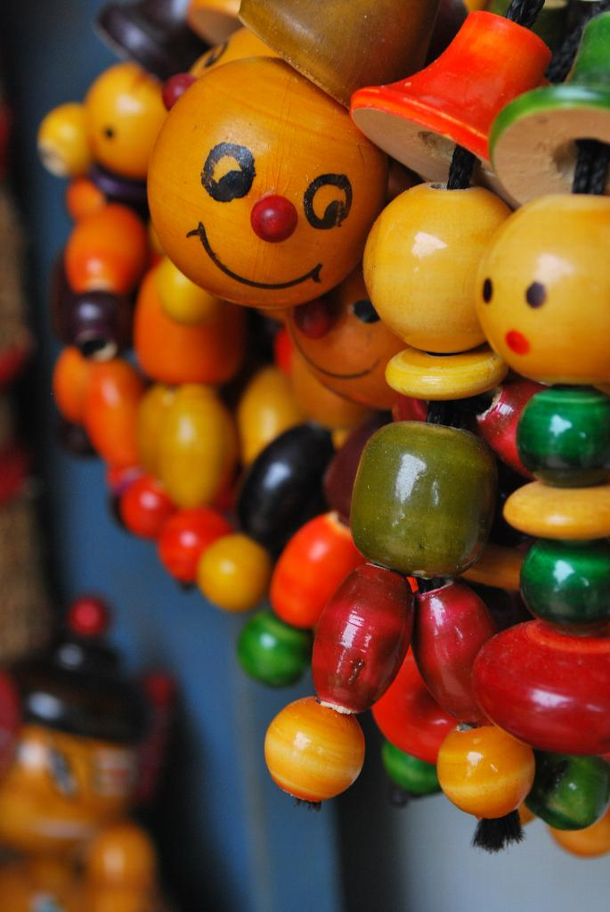 Channapatna Toys or Chennapatna Toys. ಕನ್ನಡ: ಚನ್ನಪಟ್ಟಣ ಬೊಂಬೆಗಳು.